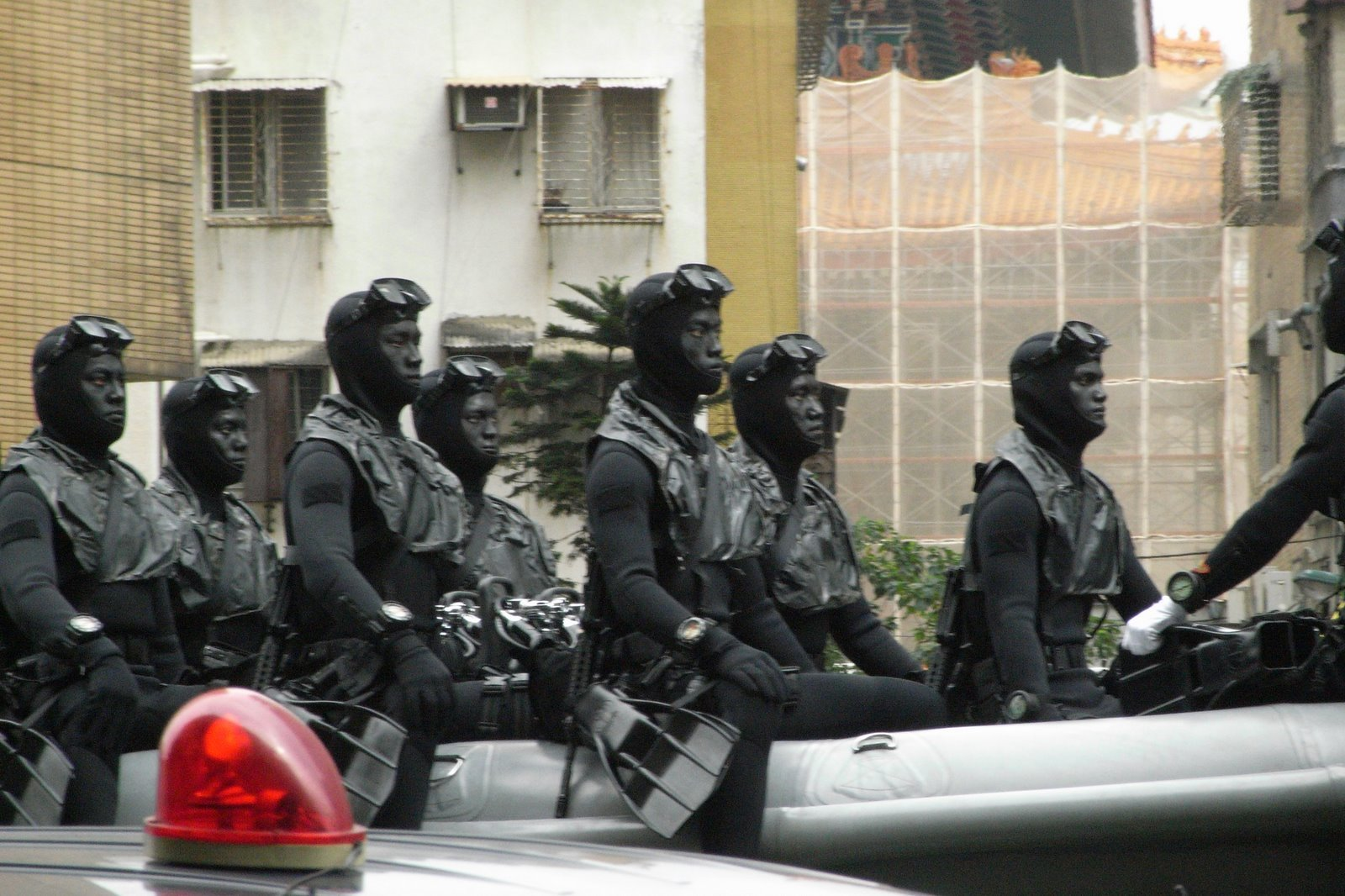 Military personnel parade through Taipei on Double Ten Day 2007.